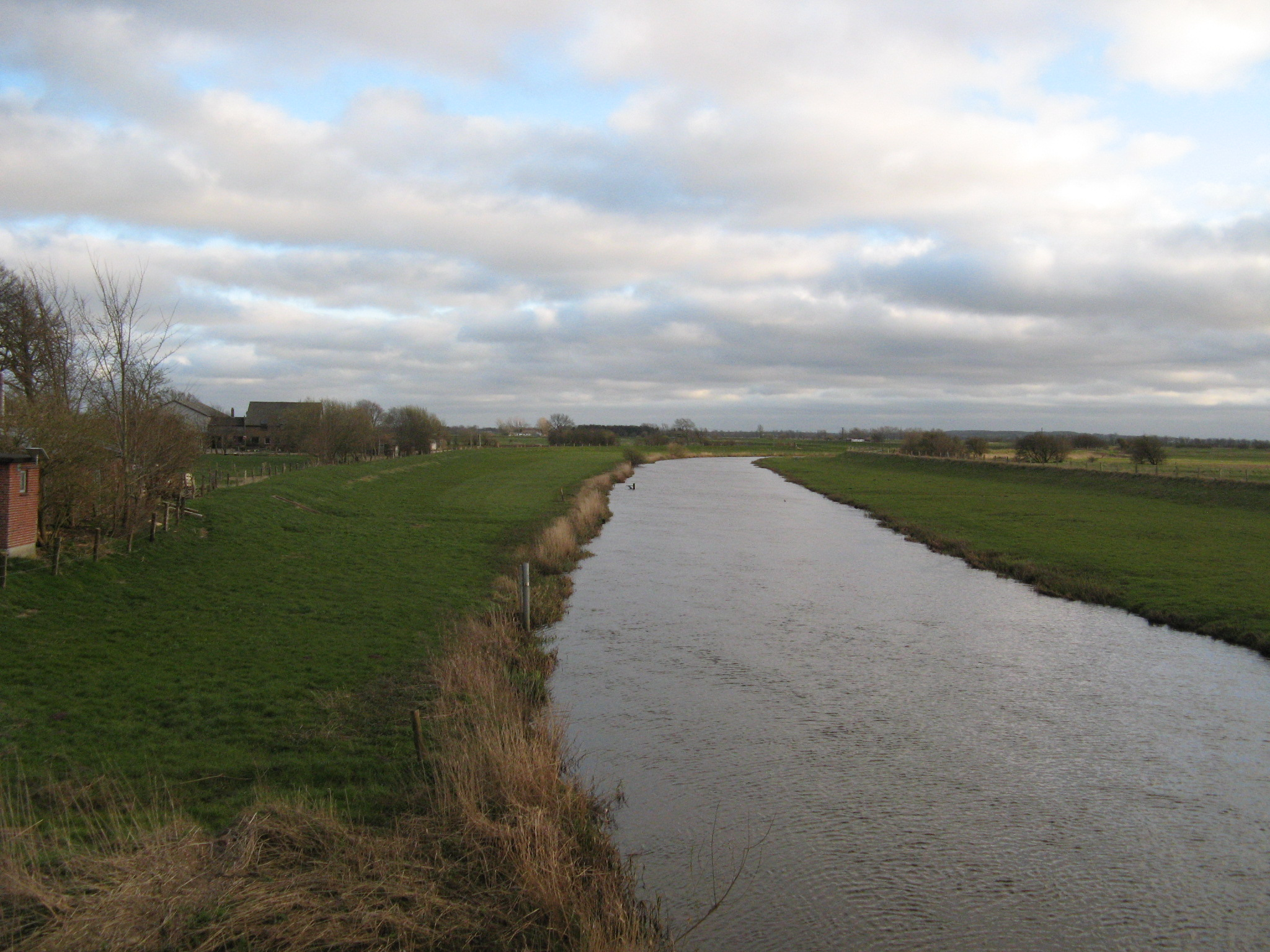 Treene River in Hollingstedt Author: Dirk Ingo Franke